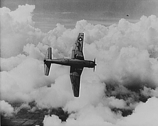 A Vultee A-31 Vengeance dive bomber in December 1942 showing its wing design.